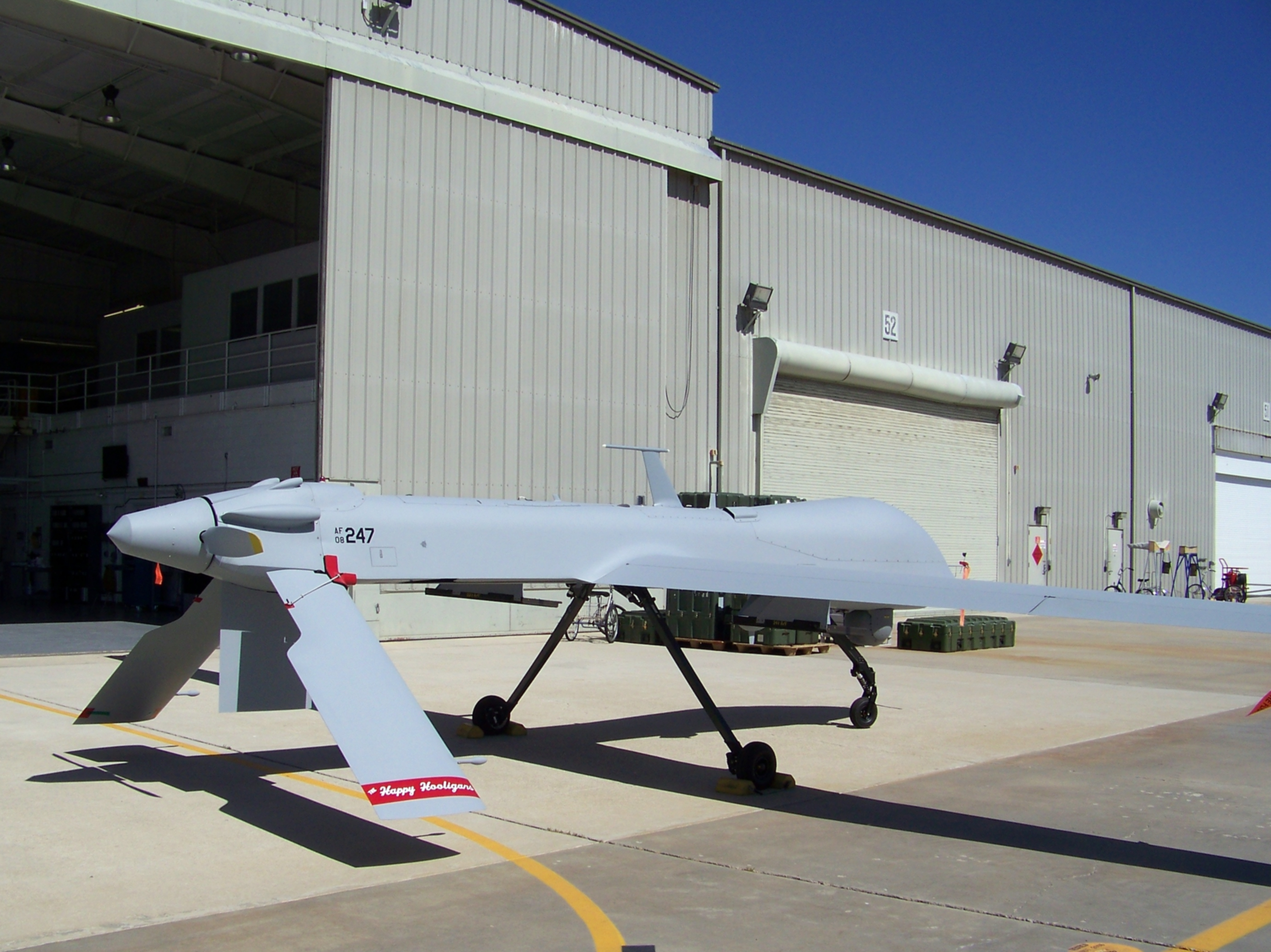 The first U.S. Air Force General Atomics MQ-1B Predator (s/n 08-245) accepted by the 119th Wing, North Dakota Air National Guard, at the General Atomics Aeronautical Systems Gray Butte facility in California (USA) on 21 June 2010. A sticker of the traditional "Happy Hooligan" tailflash was ceremoniously taped to the tail of the aircraft before it was crated for delivery.